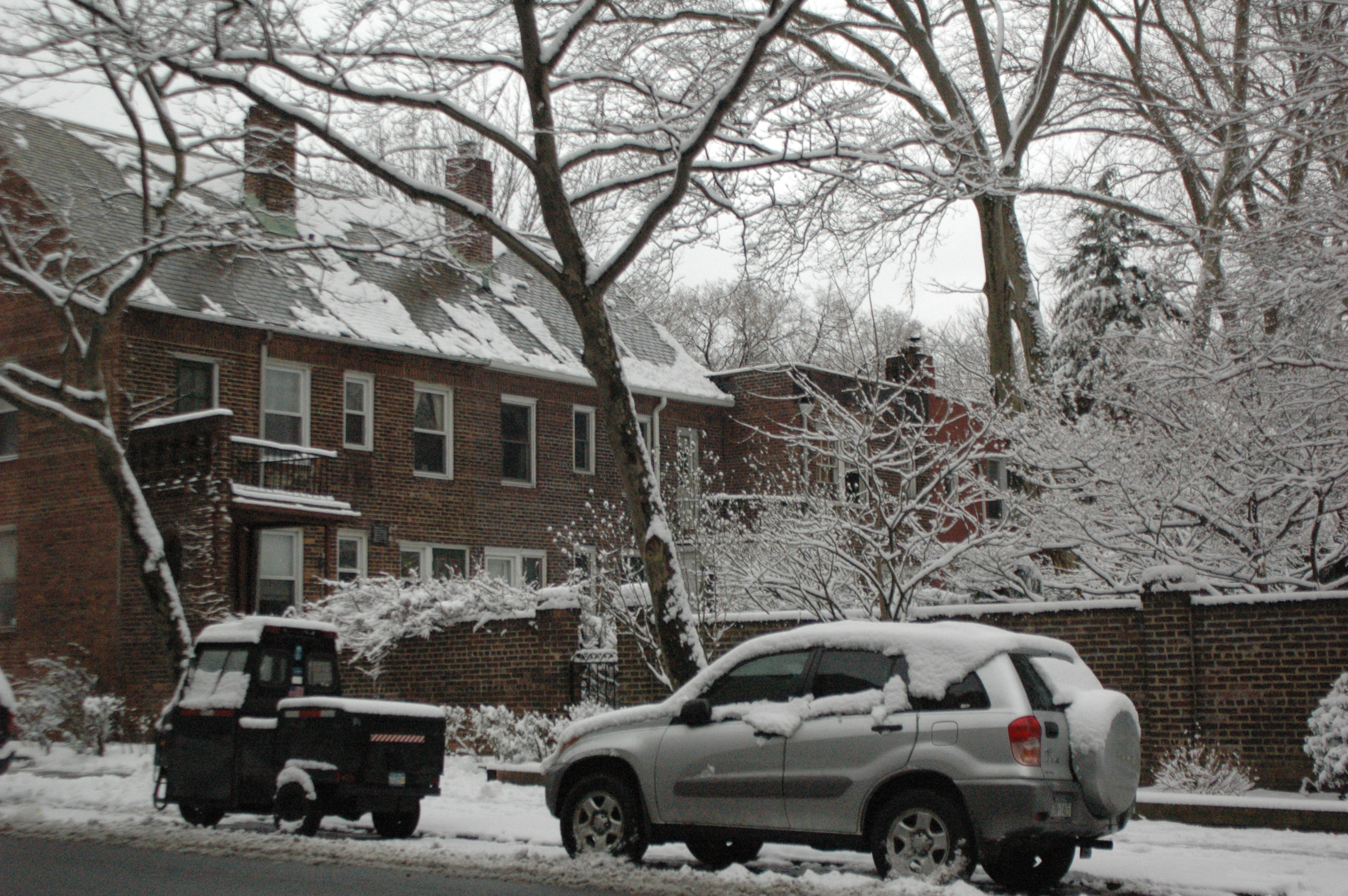 A house on 39th Avenue in Sunnyside Gardens, Queens.